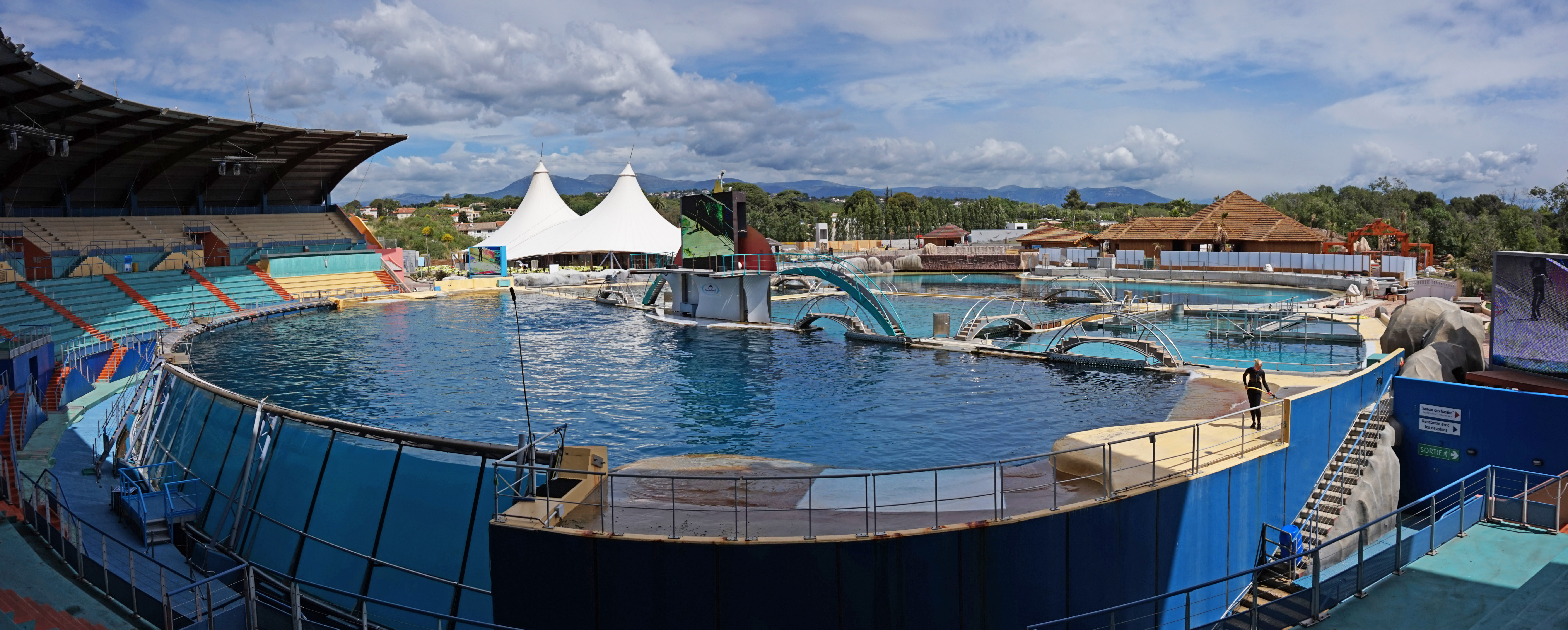 Pool of killer whales in Marineland, Antibes. This photograph was taken with a Sony Alpha a5000.